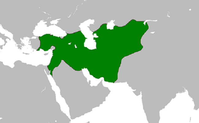 1092 yılında Büyük Selçuklular.